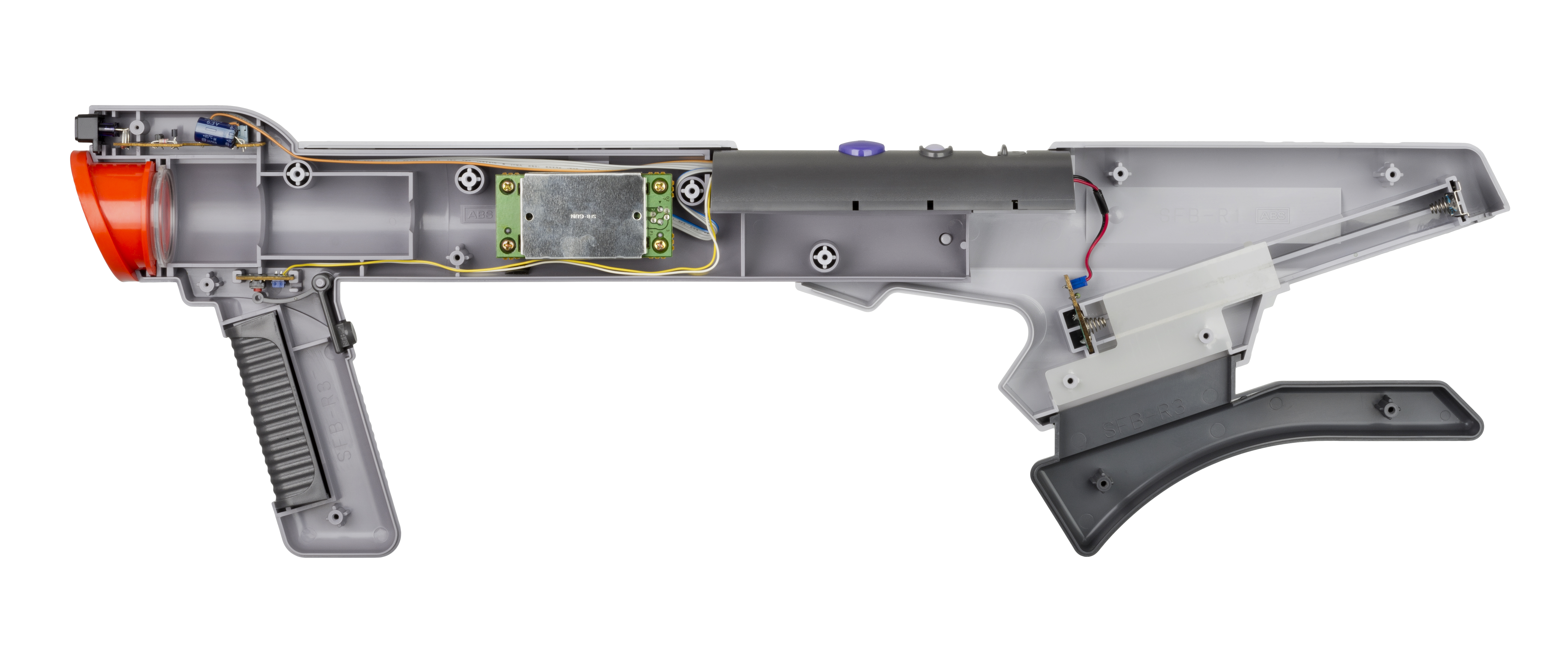 The Super Scope light gun for the Super Nintendo video game console, shown with the top casing removed.